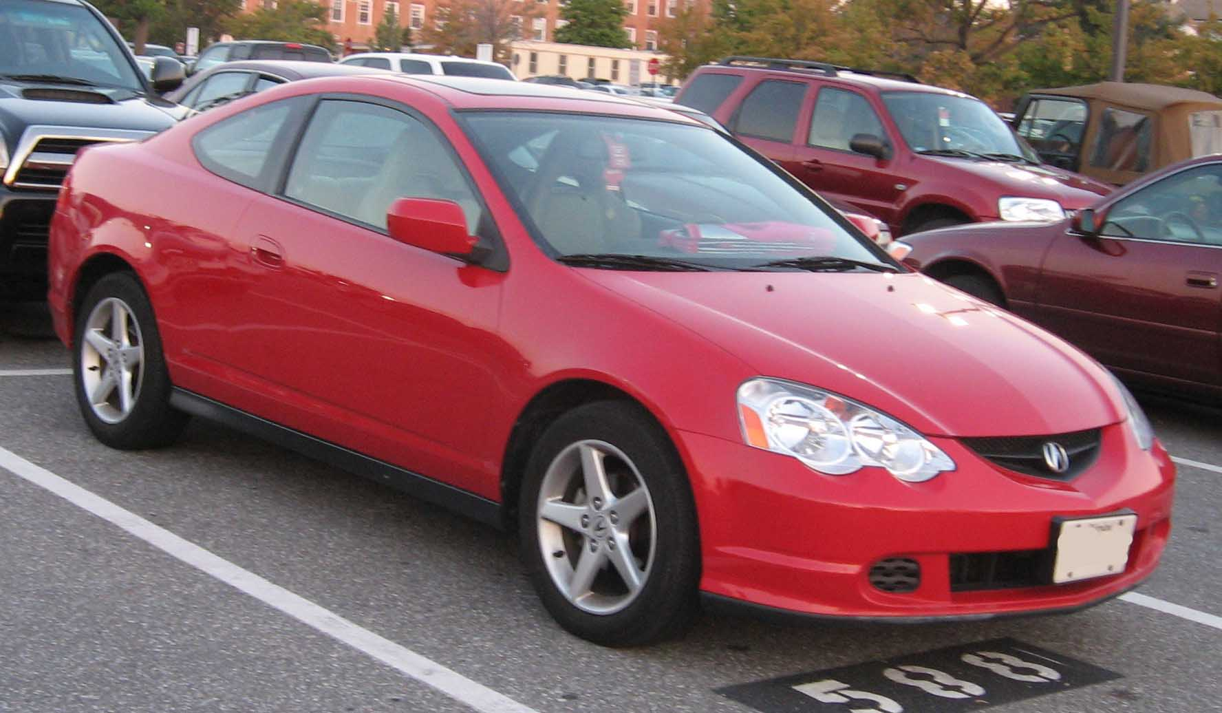 2002-2004 Acura RSX photographed in College Park, Maryland, USA.